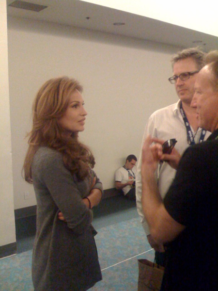 Jolene Blalock, actress, at Comic-Con 2008.